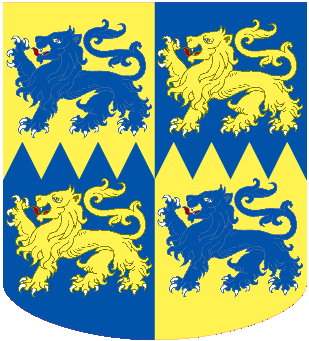 Arms of Cromwell, Baron Cromwell and Earl of Ardglass: Quarterly per fess indented or and azure, four lions passant counterchanged; also given in reputable sources with the quarters inverted: Quarterly per fess indented azure and or, four lions passant counterchanged